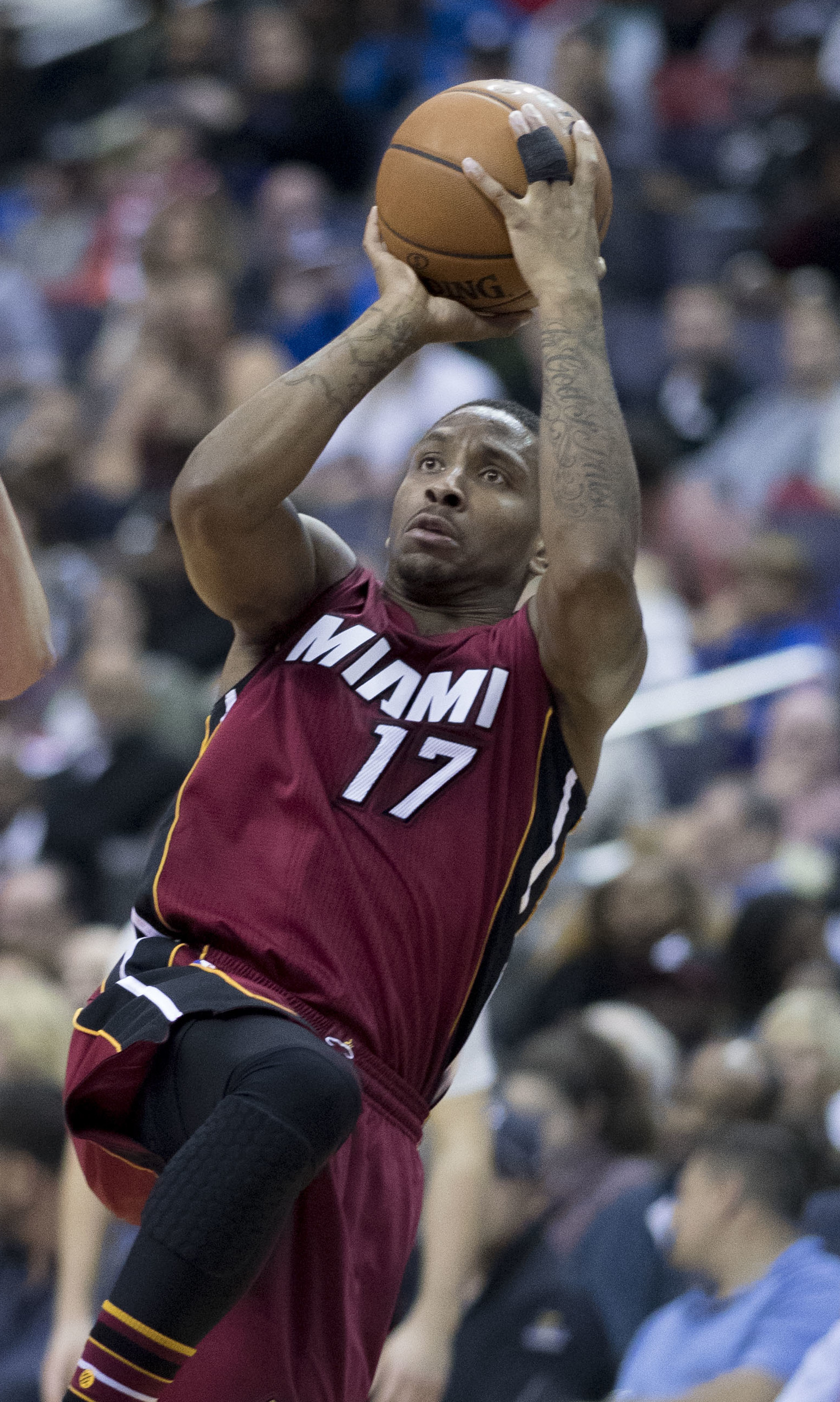 Heat at Wizards 11/19/16